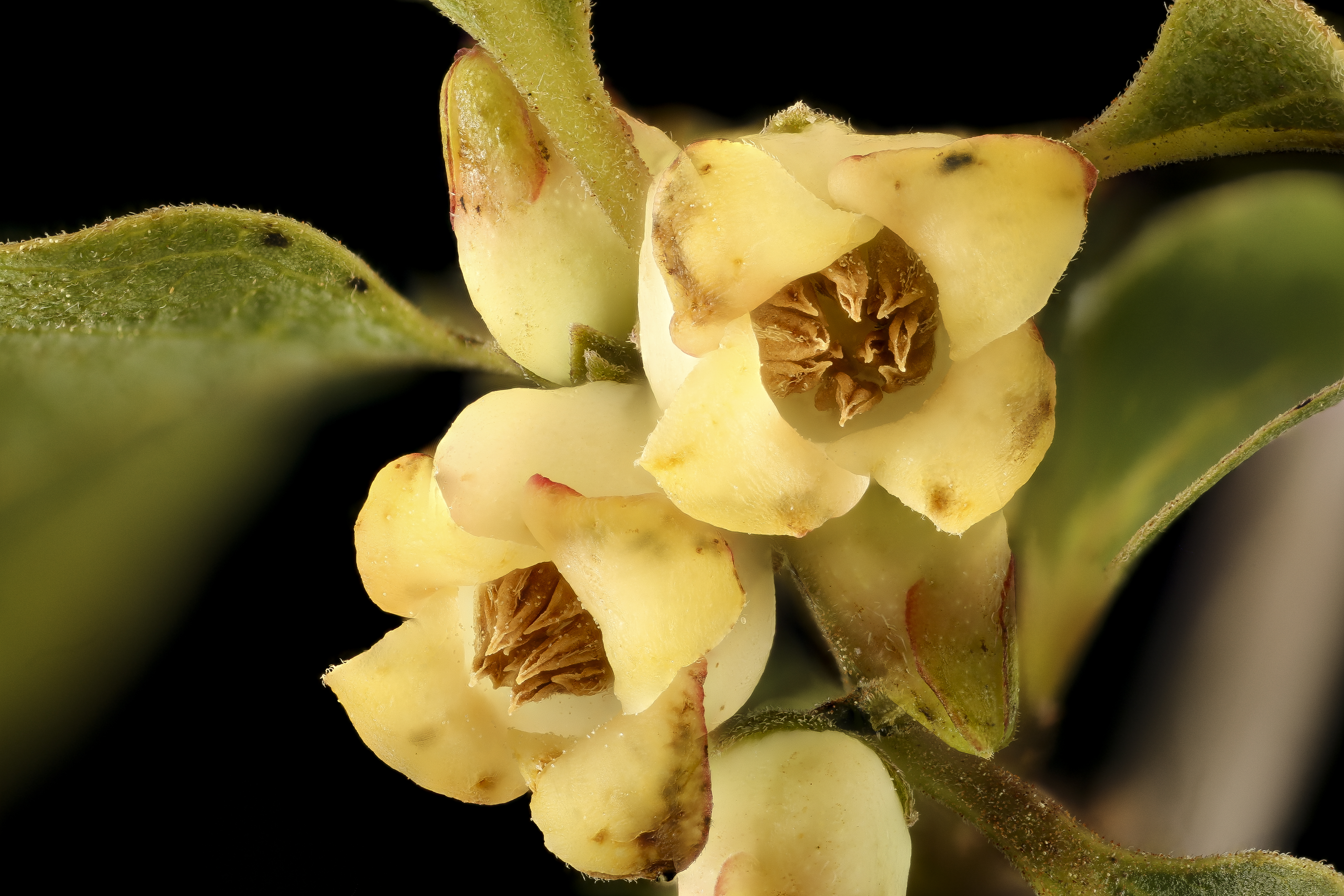 Here is a 2 picture series of persimmon (Diospyros virginiana) flowers. Some trees are male (staminate) and some are female (pistilate). The easy to come by literature of the web searchers says they are pollinated by insects and the wind. I have never collected off them (too high up and am guessing not super attractive to bees). So, this seems like a field ripe for contributions. What are the pollinators that visit wild persimmons? Please go outside, find out next year and let me know. Thanks. Pictures and persimmon flowers by Helen Lowe Metzman. 21:36, 24 July 2017 (UTC)21:36, 24 July 2017 (UTC) 0 21:36, 24 July 2017 (UTC)21:36, 24 July 2017 (UTC) All photographs are public domain, feel free to download and use as you wish. Photography Information: Canon Mark II 5D, Zerene Stacker, Stackshot Sled, 65mm Canon MP-E 1-5X macro lens, Twin Macro Flash in Styrofoam Cooler, F5.0, ISO 100, Shutter Speed 200 Beauty is truth, truth beauty - that is all Ye know on earth and all ye need to know " Ode on a Grecian Urn" John Keats You can also follow us on Instagram - account = USGSBIML Want some Useful Links to the Techniques We Use? Well now here you go Citizen: Art Photo Book: Bees: An Up-Close Look at Pollinators Around the World Free Field Guide to Bee Genera of Maryland Basic USGSBIML set up: USGSBIML Photoshopping Technique: Note that we now have added using the burn tool at 50% opacity set to shadows to clean up the halos that bleed into the black background from "hot" color sections of the picture. Bees of Maryland Organized by Taxa with information on each Genus PDF of Basic USGSBIML Photography Set Up: ftp://ftpext.usgs.gov/pub/er/md/laurel/Droege/How%20to%20Take%20MacroPhotographs%20of%20Insects%20BIML%20Lab2.pdf Google Hangout Demonstration of Techniques: or Excellent Technical Form on Stacking: Contact information: Sam Droege 301 497 5840